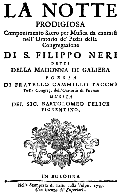 Bartolomeo Felici - La notte prodigiosa - titlepage of the libretto - Bologna 1759